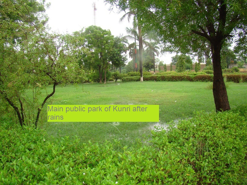 Main park at Kunri after rains